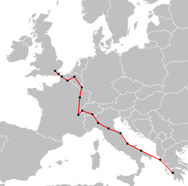 Created from data from the 1948 Official Report and using Blank Template for Greater Europe.PNG as a base.